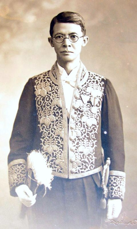 Dr. Tsungming Tu